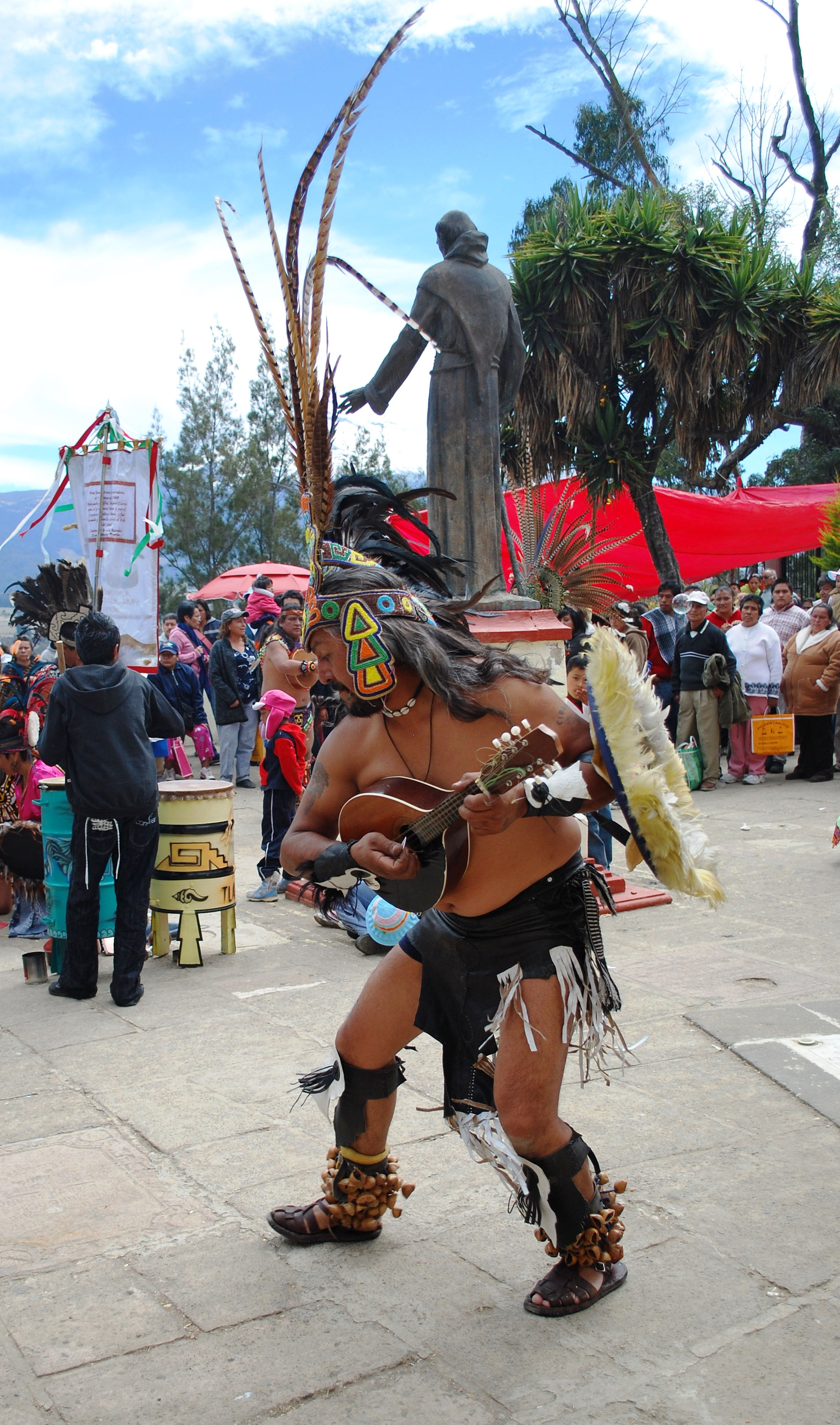 Dancer in Aztec garb playing a guitar at the Feast of the Señor del Sacromonte in Amecameca, Mexico State